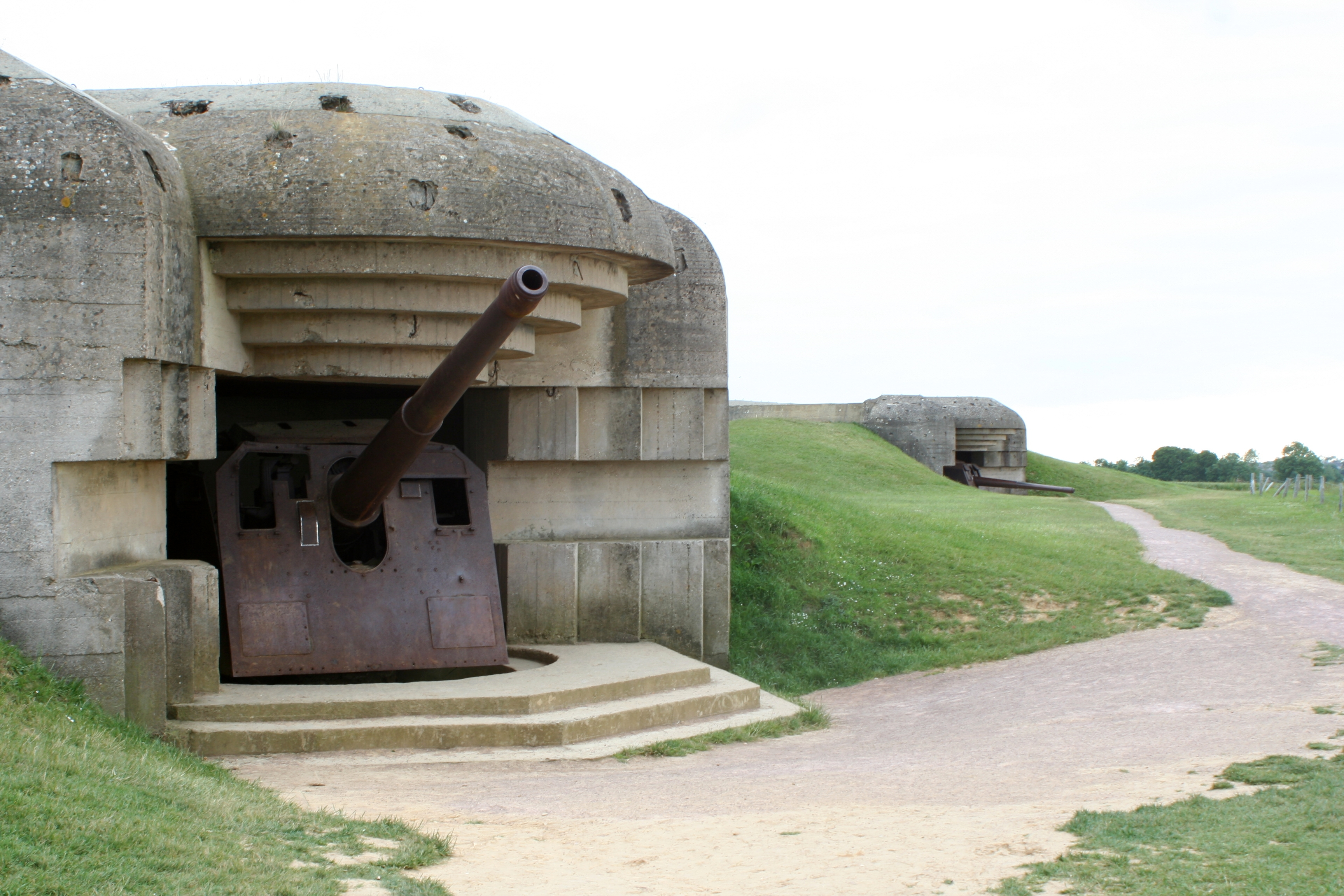 German bunkers of Longues-sur-Mer battery in Normandy, France